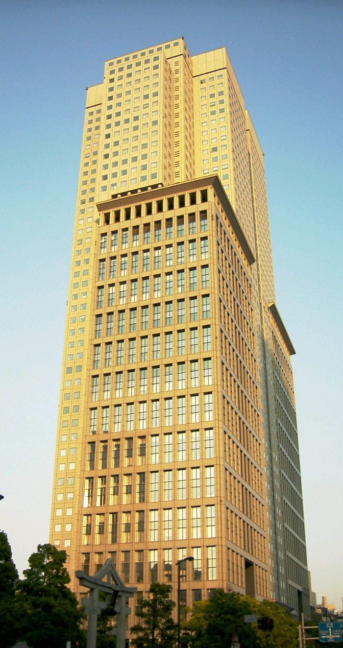 “Sanno Park Tower”